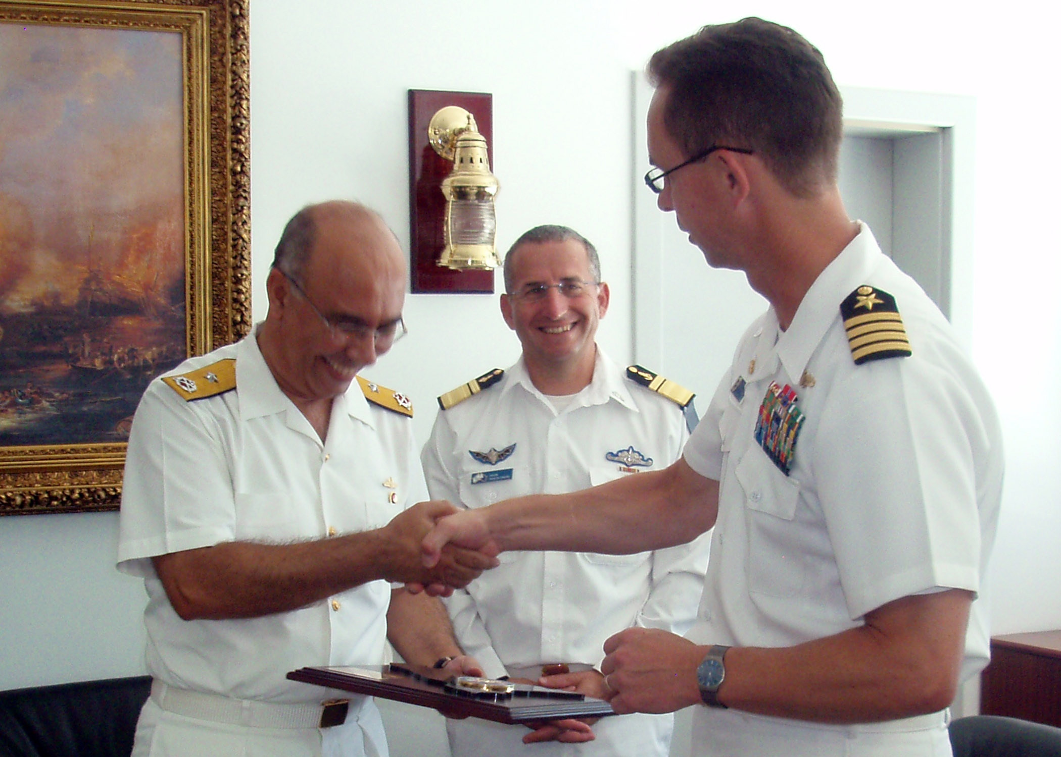 U.S. Navy Capt. John W. Moore, commander of Task Force 67, exchanges gifts and greetings with Turkish Rear Adm. Ismail Taylan and Israeli Rear Adm. Rom Rutberg during pre-exercise discussions for exercise Reliant Mermaid 2009 Aug. 17, 2009, in Aksaz, Turkey. The annual exercise involving forces from Israel, Turkey and the United States is based on scripted humanitarian search and rescue scenarios.